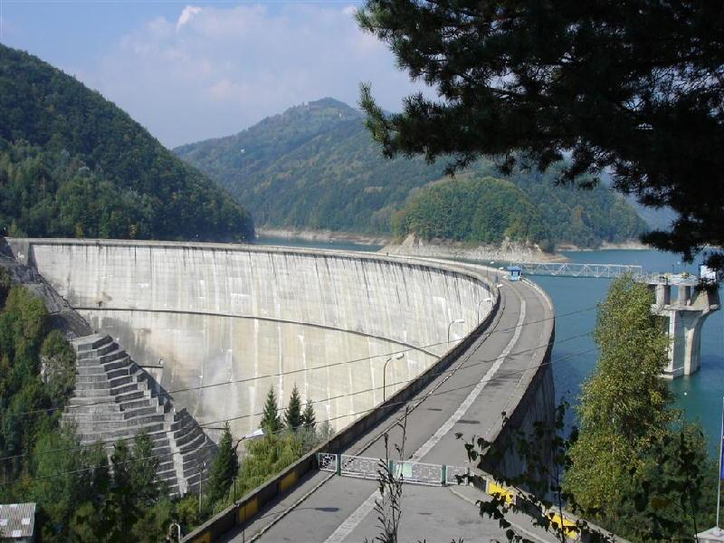 Paltinu dam - view from the left bank